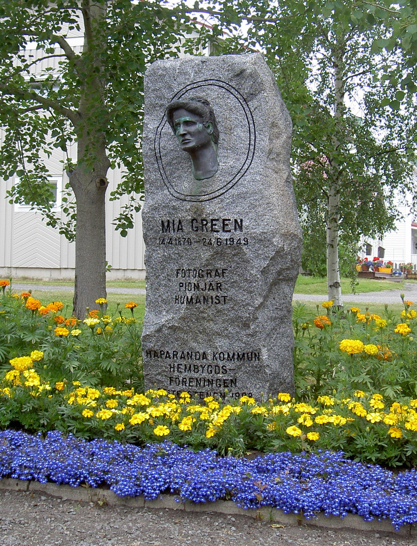 Monument of Mia Green with copper sculpture by Lars Stålnacke in Haparanda Sweden.